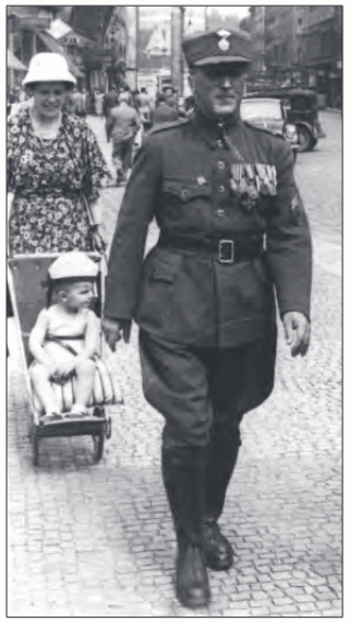 Otto Linhart (* 1895 - † 1980). One of four brothers origin from Linhatr's family. Participant anti-Nazi resistance in the Protectorate of Bohemia and Moravia. A member of the Czechoslovak legions in Russia. Under the Protectorate he worked as a radio operator in favor of illegal resistance organization ÚVOD. As one of the few operators of illegal radio stations of class SPARTA he survived the world war 2 and he continued working as a postal inspector at the main post office in Prague. In the photograph is Otto Linhart in the uniform of Russian legionary after returning to Prague in 1920. Photo from private archive: Jarmila Křížová, Kamenice nad Lipou, Czech Republic.